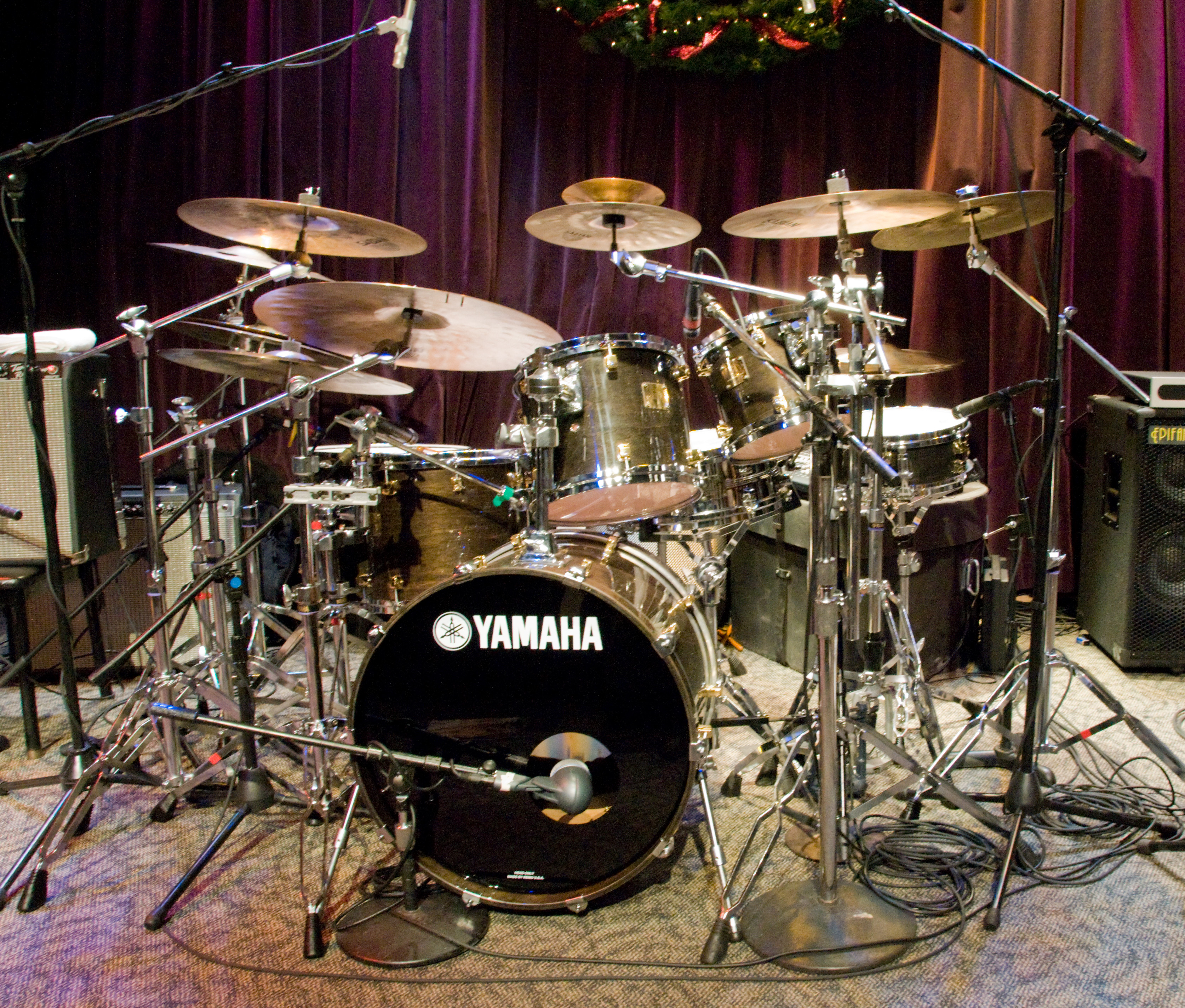 Dave Weckl's drum kit @ Jazz Alley, Seattle, WA, 8th Dec. 2007